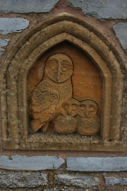 Carved owls Carved owls on a house at Barton.